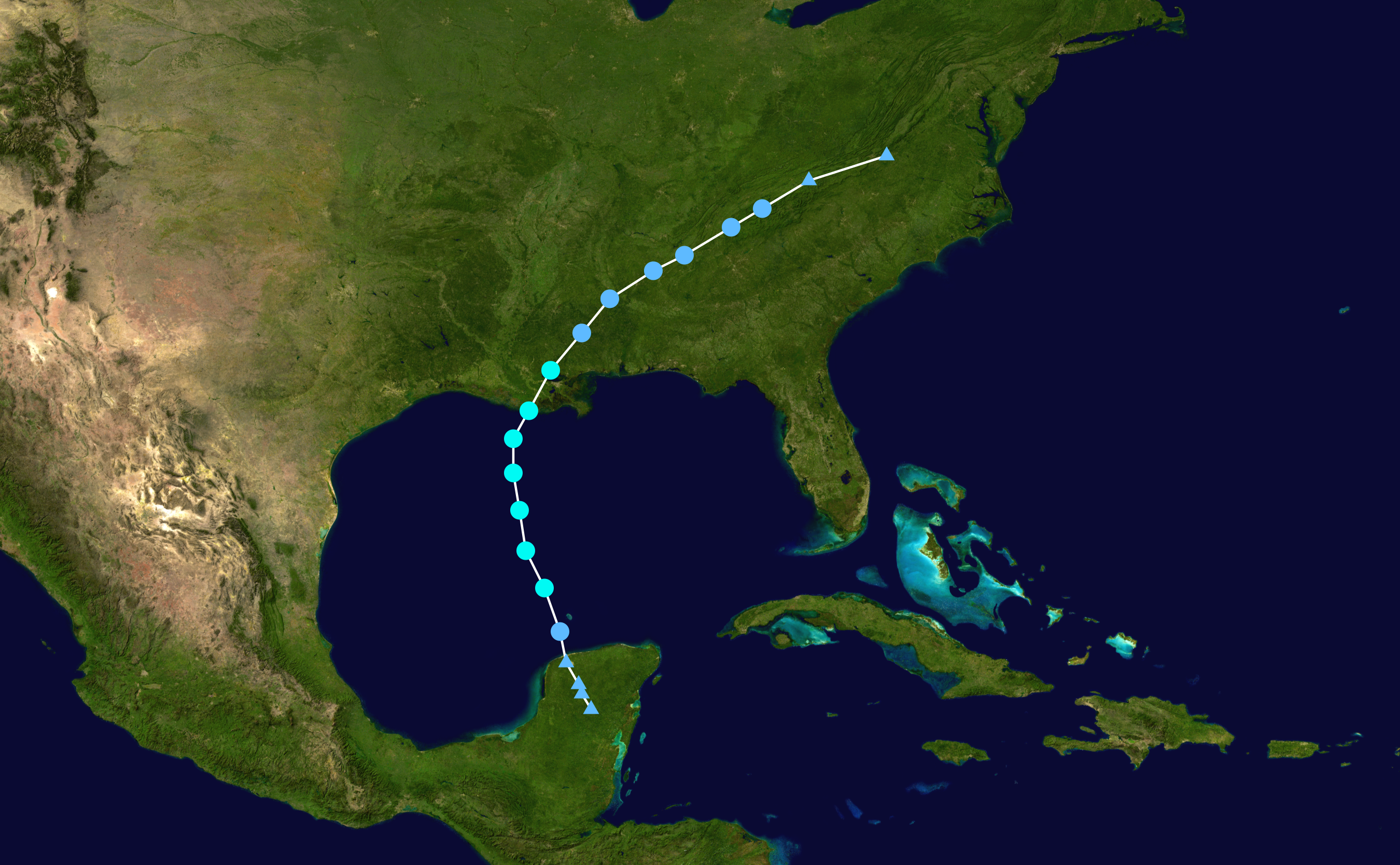 Track map of Tropical Storm Bill of the 2003 Atlantic hurricane season. The points show the location of the storm at 6-hour intervals. The colour represents the storm's maximum sustained wind speeds as classified in the Saffir–Simpson scale (see below), and the shape of the data points represent the nature of the storm, according to the legend below. Saffir–Simpson scale Tropical depression≤38 mph≤62 km/h Category 3111–129 mph178–208 km/h Tropical storm39–73 mph63–118 km/h Category 4130–156 mph209–251 km/h Category 174–95 mph119–153 km/h Category 5≥157 mph≥252 km/h Category 296–110 mph154–177 km/h Unknown Storm type Tropical cyclone Subtropical cyclone Extratropical cyclone / Remnant low / Tropical disturbance / Monsoon depression